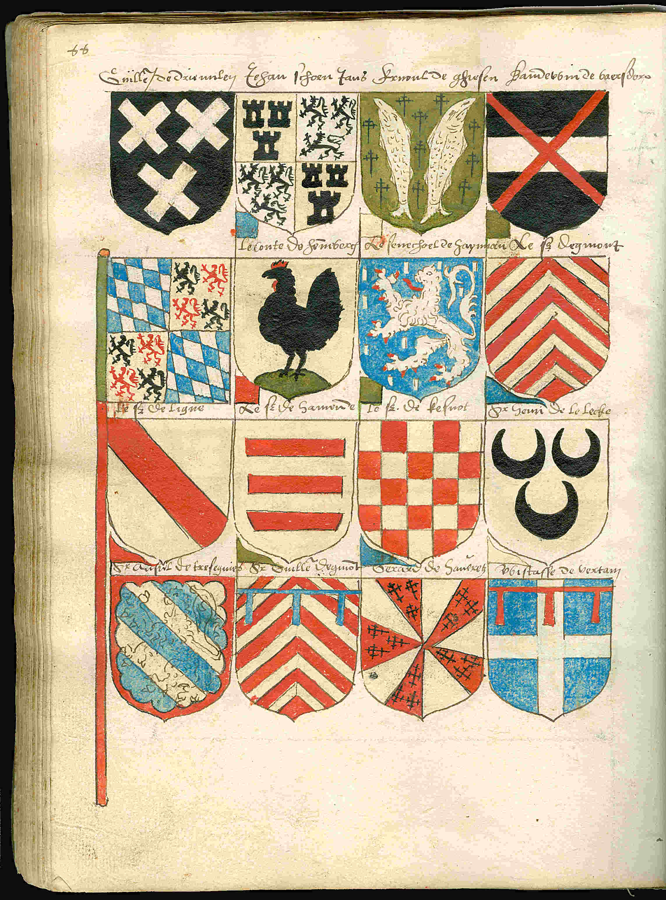 Page 66 from a copy of the Beyeren armorial / Wapenboek Beyeren from ca. 1600. The original Beyeren armorial from 1405 can be viewed at the website of the KB